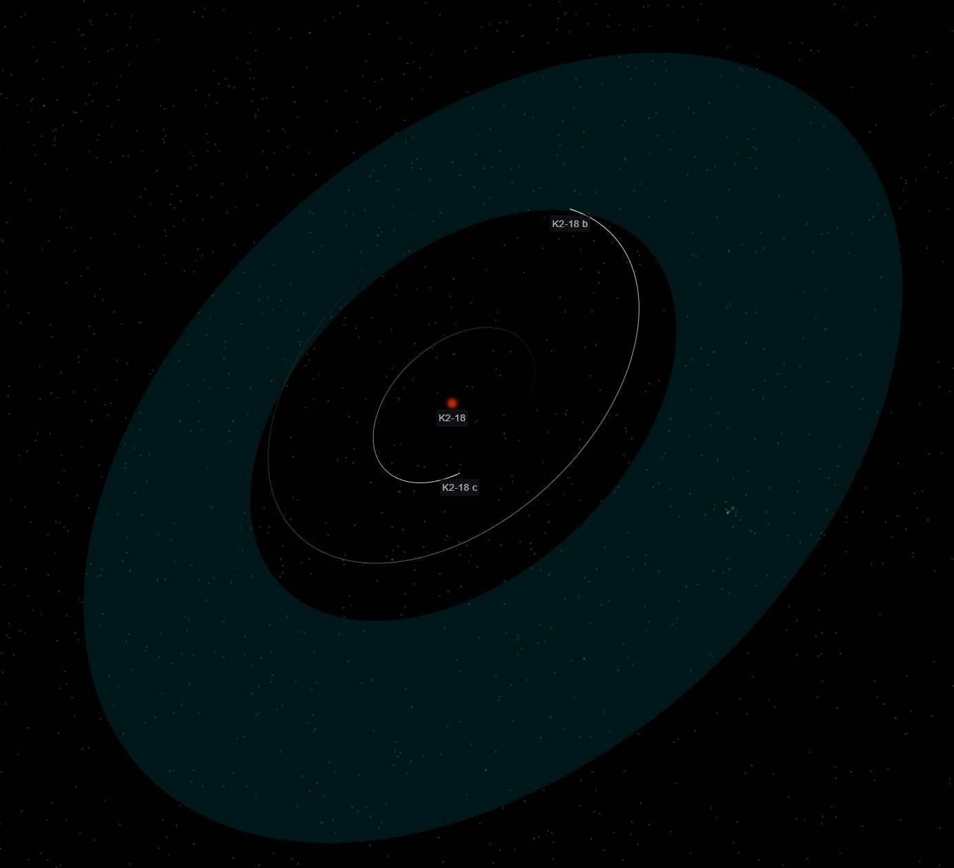 A representation of the planetary system around K2-18, indicating the orbits of two known exoplanets and the star's habitable zone. K2-18b has gained interest as the first exoplanet to have an orbit within the habitable zone and with the presence of water in its atmosphere. Image taken from a screenshot of the Exoplanet Exploration Program app that allows exploration of various exoplanet systems.